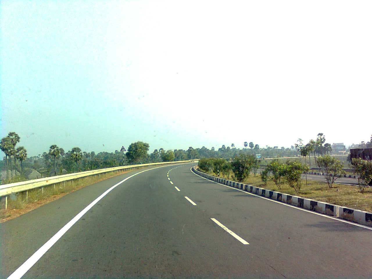 NH 5 at madhurawada, vizag, AP, India. NH 5 has been renumbered as NH-16